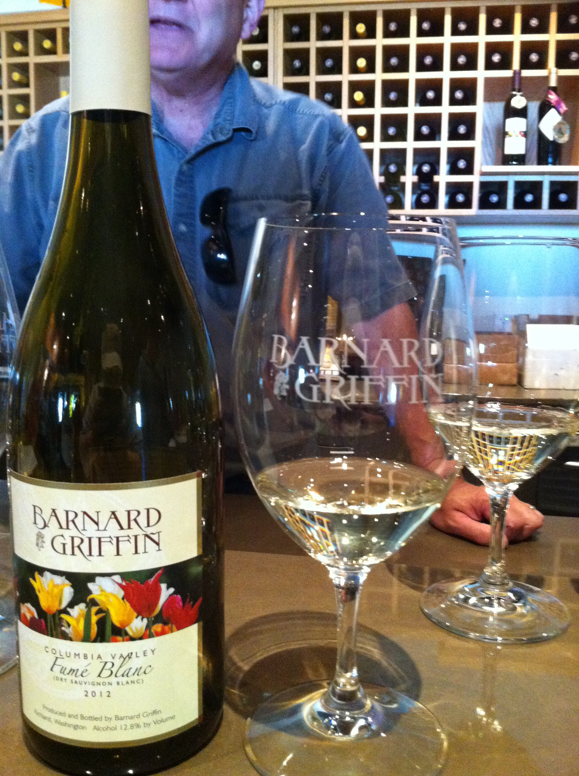 Sauvignon blanc wine labeled Fume blanc